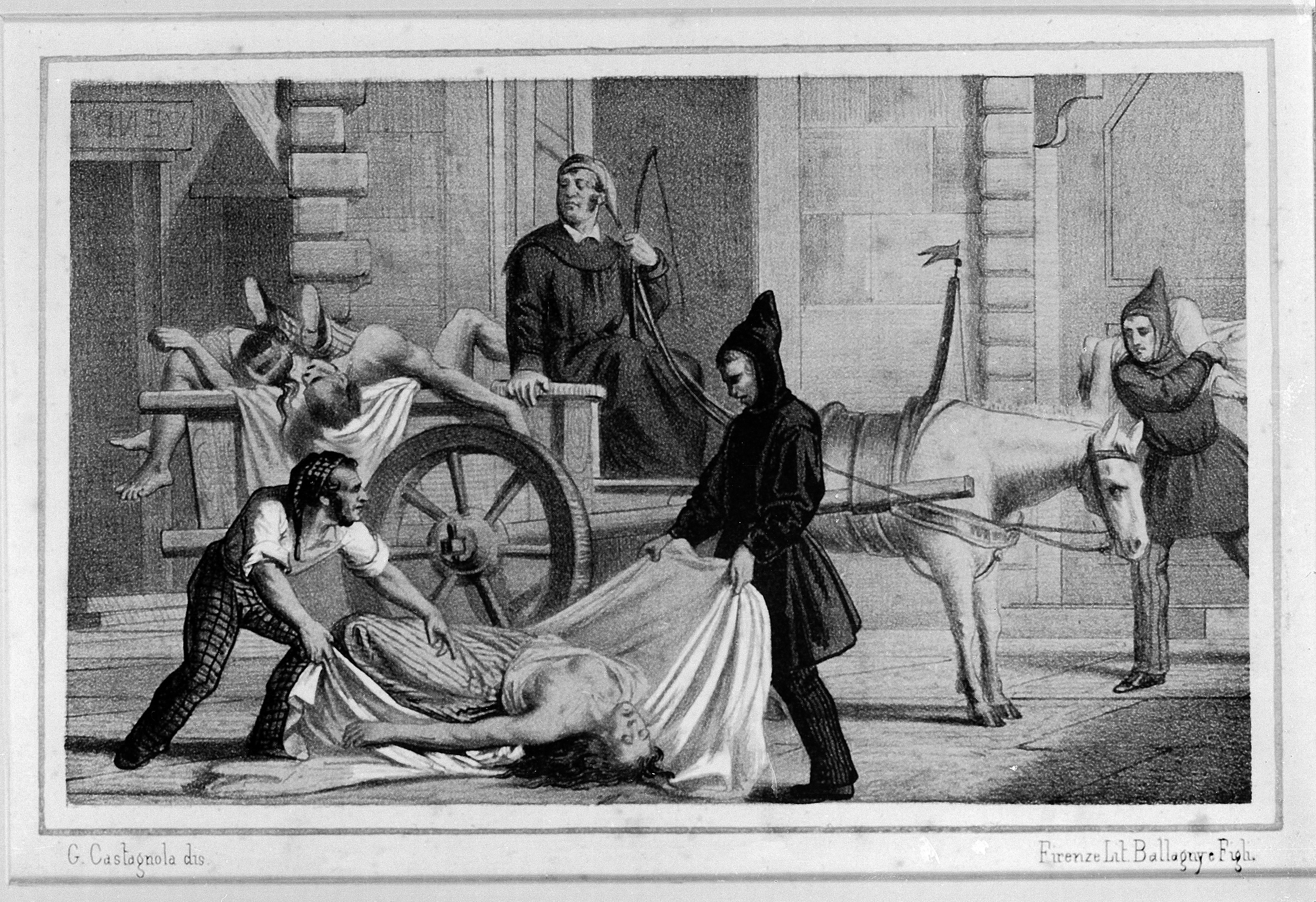 Men in uniform picking up a corpse in the street and putting it on a wagon, said to be a depiction of cholera in Palermo in 1835. Wellcome Images Keywords: Cholera; Gabriele Castagnola